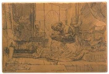 The Virgin and Child with a Cat, 1654, Rembrandt van Rijn (1606-1669) V&A Museum nos.E.655-1993 top; CAI.646 bottom Techniques - Etching on paper (below), the original etched copper printing plate (above) Place - Netherlands Dimensions - Height 9.5 cm, Width 14.5 cm